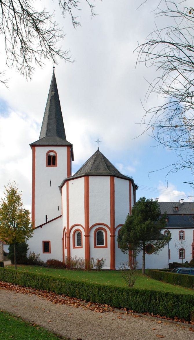 Abbey church in Niederehe, Germany.